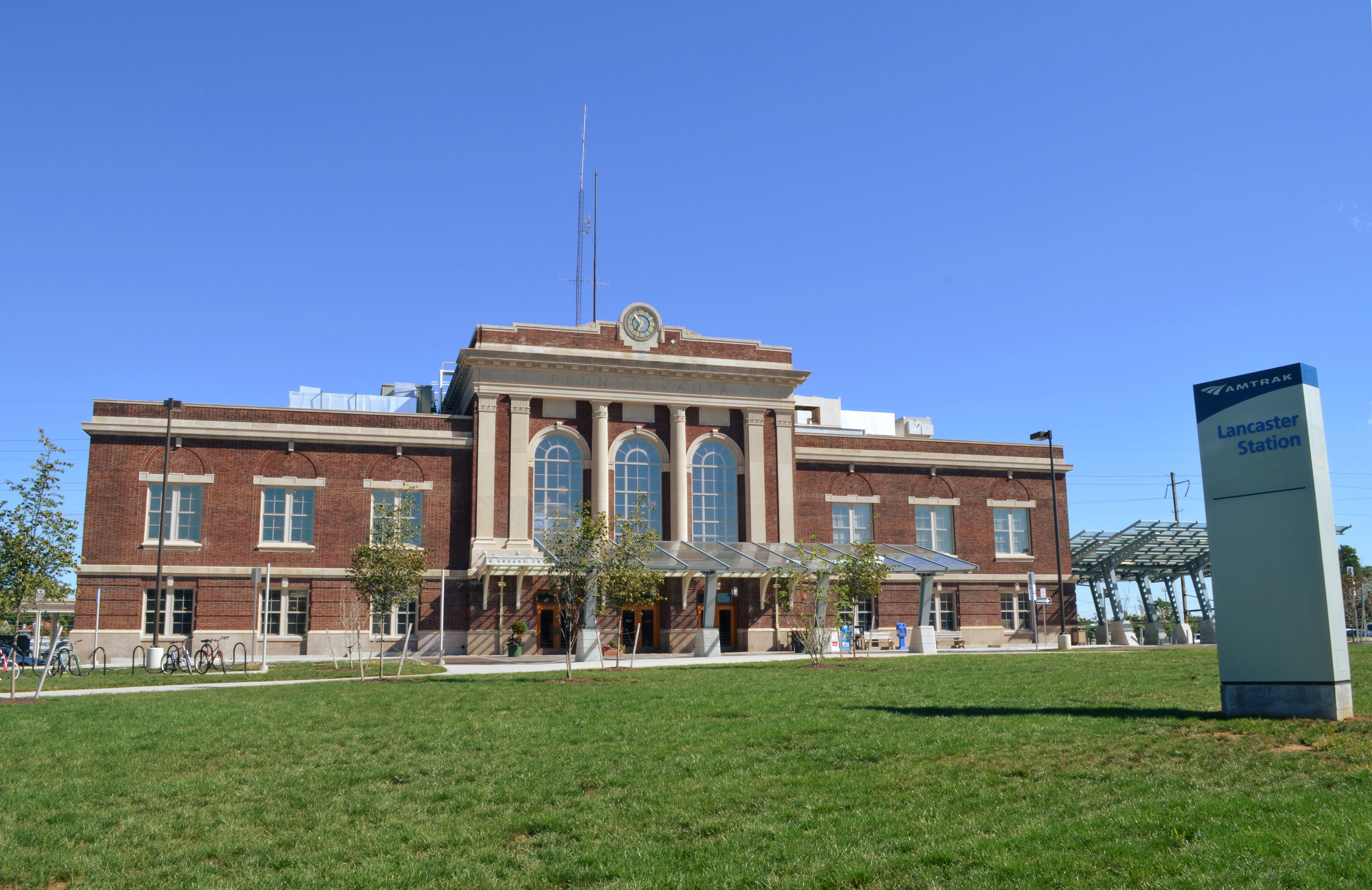 The Lancaster Amtrak station in Lancaster, Pennsylvania. The station was renovated from 2009 to 2012. It is a contributing property to the Lancaster City Historic District